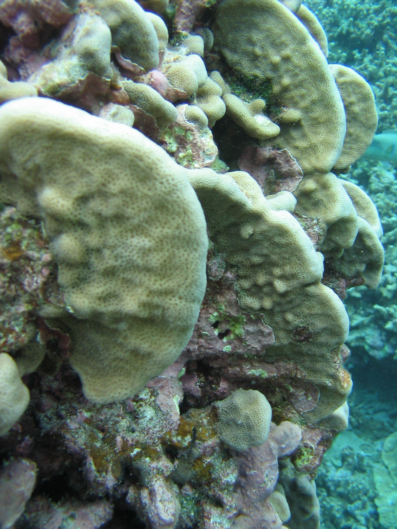 Pavona duerdeni - sometimes called pork chop coral Image ID: reef0617, NOAA's Coral Kingdom Collection Location: Northwest Hawaiian Islands